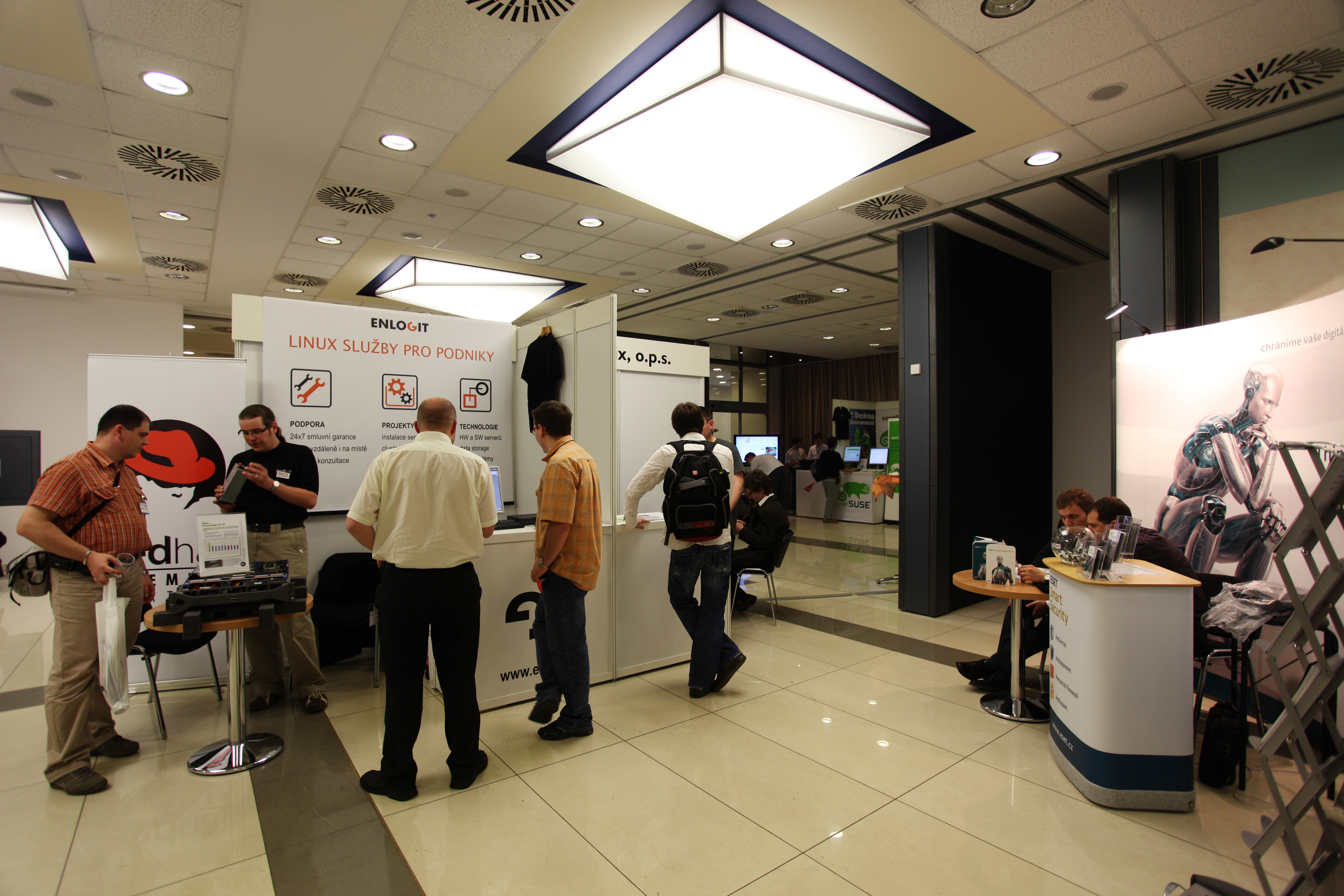 LinuxExpo exposition